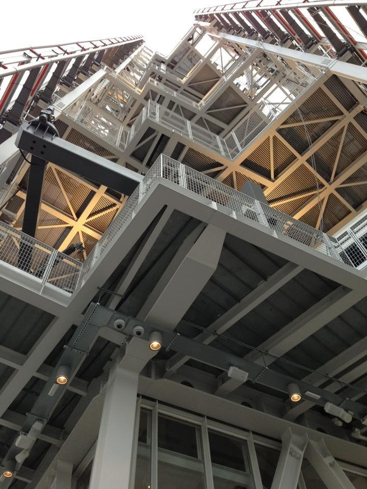 The upper structure of the Shard, seen looking up from the 72nd-floor observation deck on 6 February 2013.